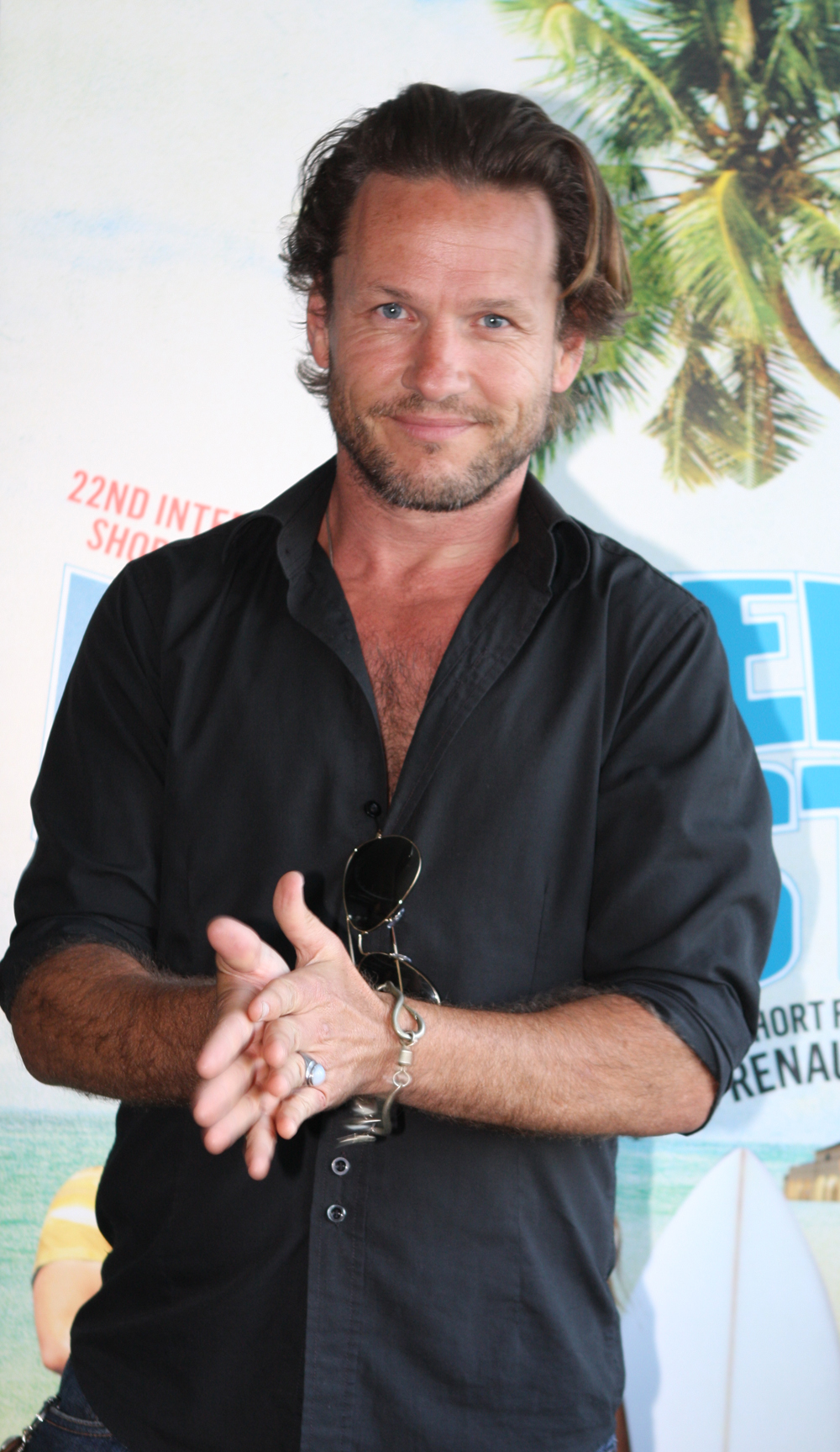 Flickerfest enjoyed its launch night at Bondi Icebergs tonight.